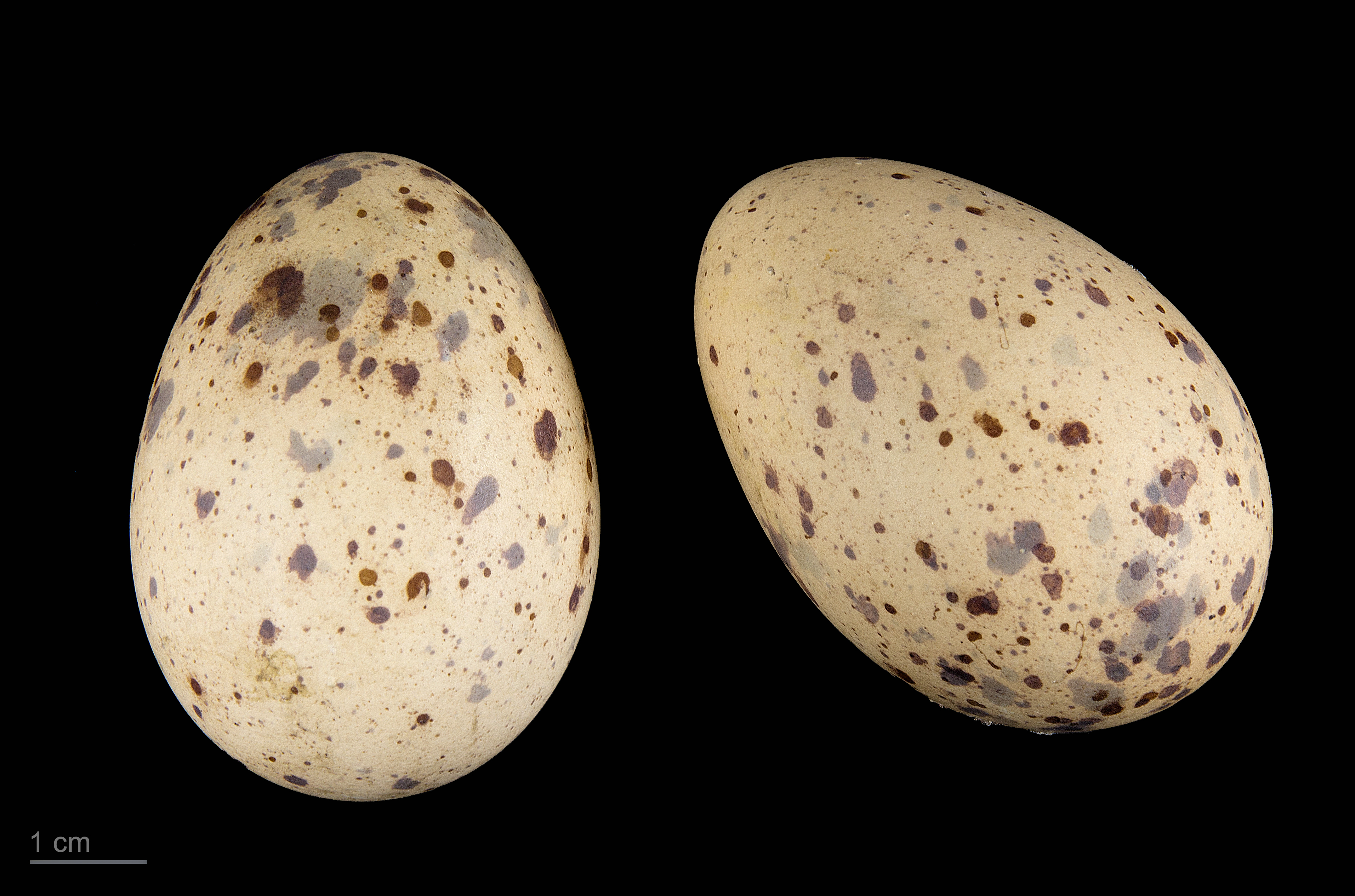 Eggs of African swamphen Two specimens of the same spawn ; collection of Jacques Perrin de Brichambaut.